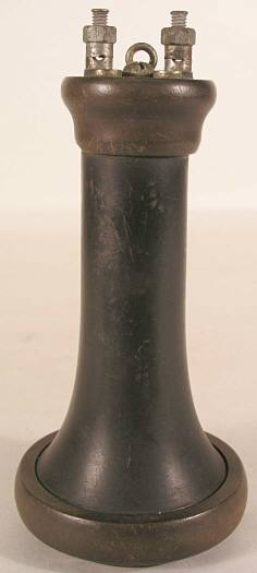 Earpiece for an early "candlestick" telephone, made prior to 1900.